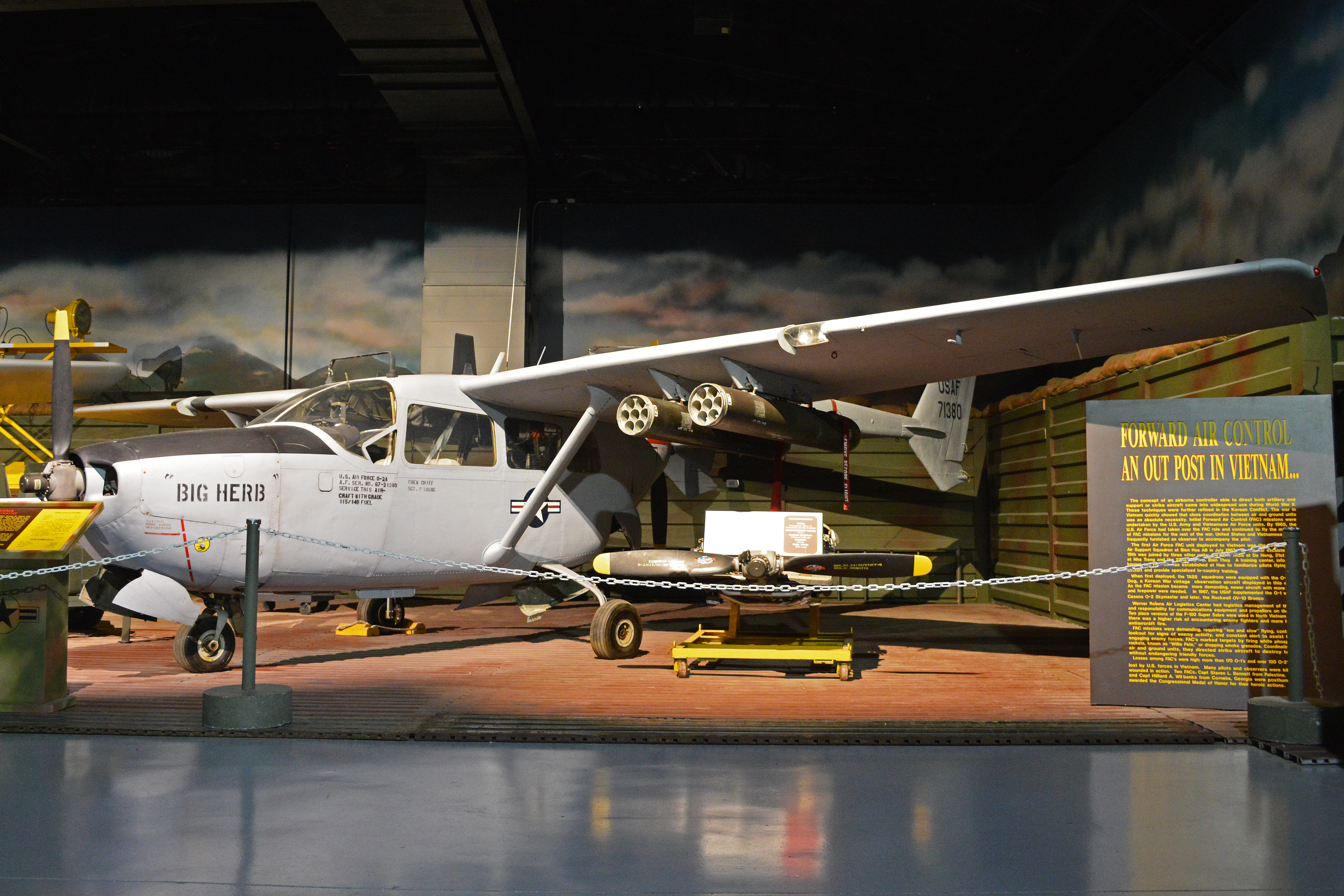 The O-2 was a military version of the Cessna 337 and was used in the FAC (Forward Air Control) role. A total of 178 USAF Skymasters were lost during the Vietnam War. Full military serial 67-21380. c/n 337M-0086. On display in Hangar 1 at the Warner Robins Museum of Aviation. Georgia, USA. 18-4-2013